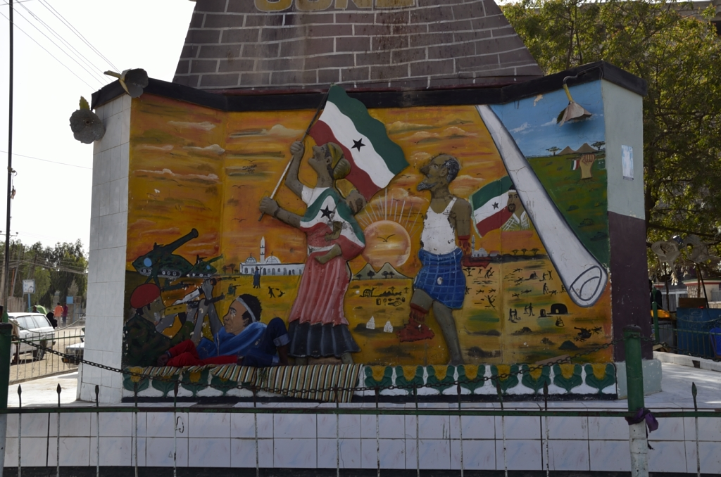 A monument in the centre of Hargeysa, reminding on the bombings of the separatist city by the governmental troops 1988.